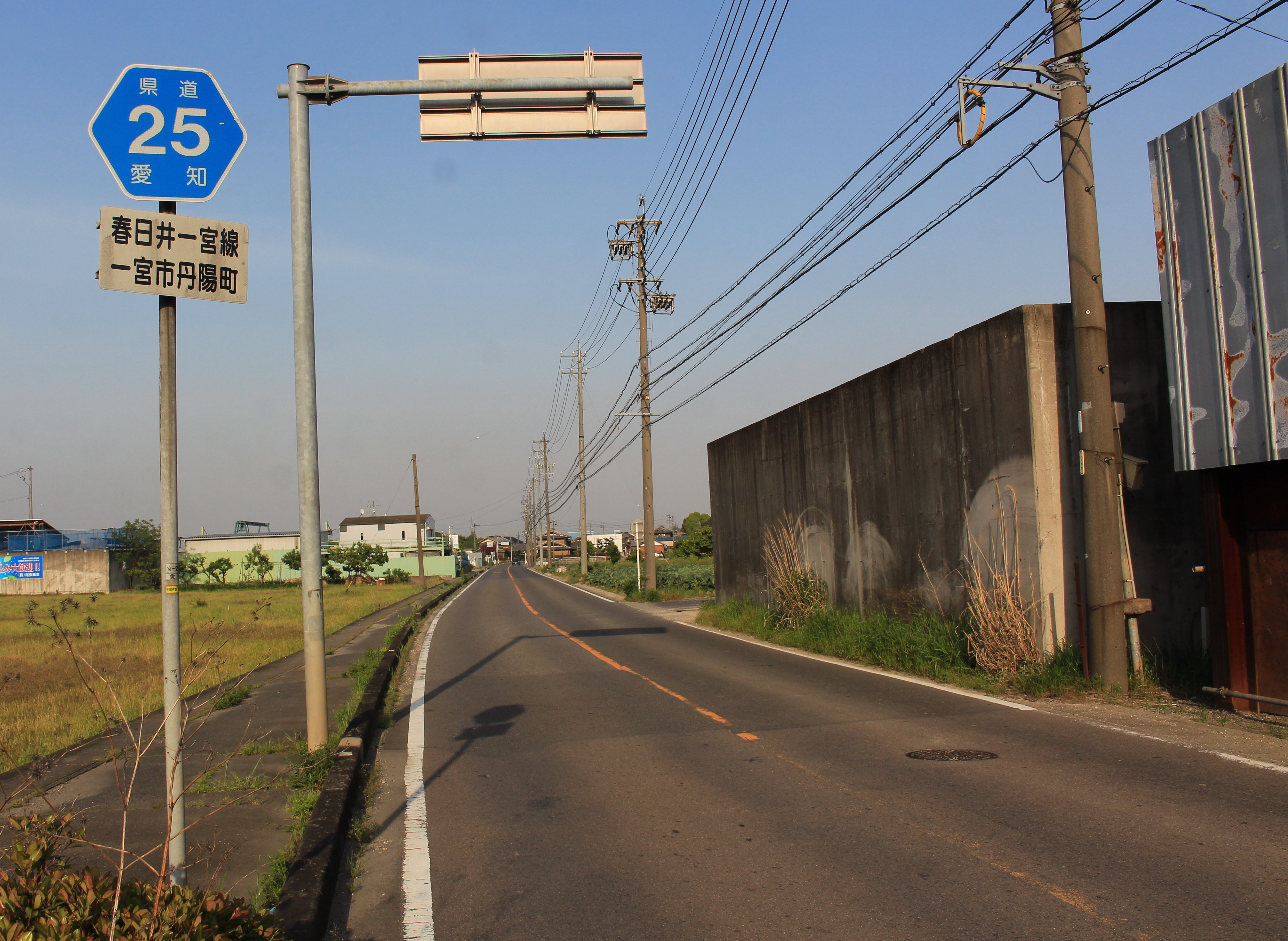 Aichi Prefectural Road Route 25 in Tanyō, Ichinomiya, Aichi prefecture, Japan.